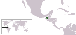 Summary Locatie van Los Altos Licensing